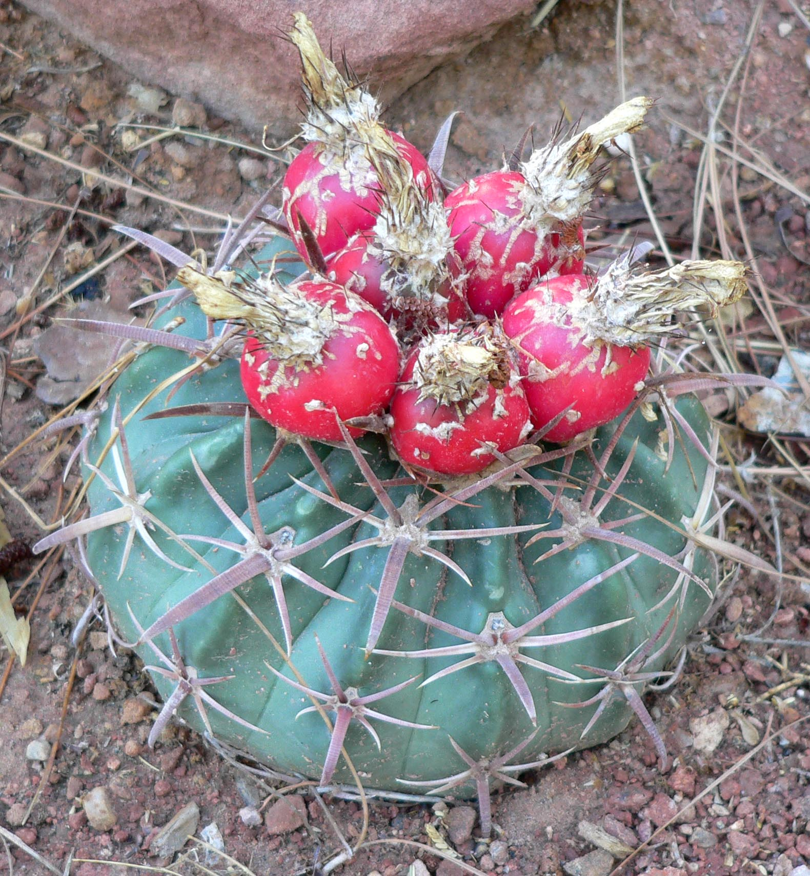 Photo of Echinocactus texensis fruit at the Springs Preserve garden in Las Vegas